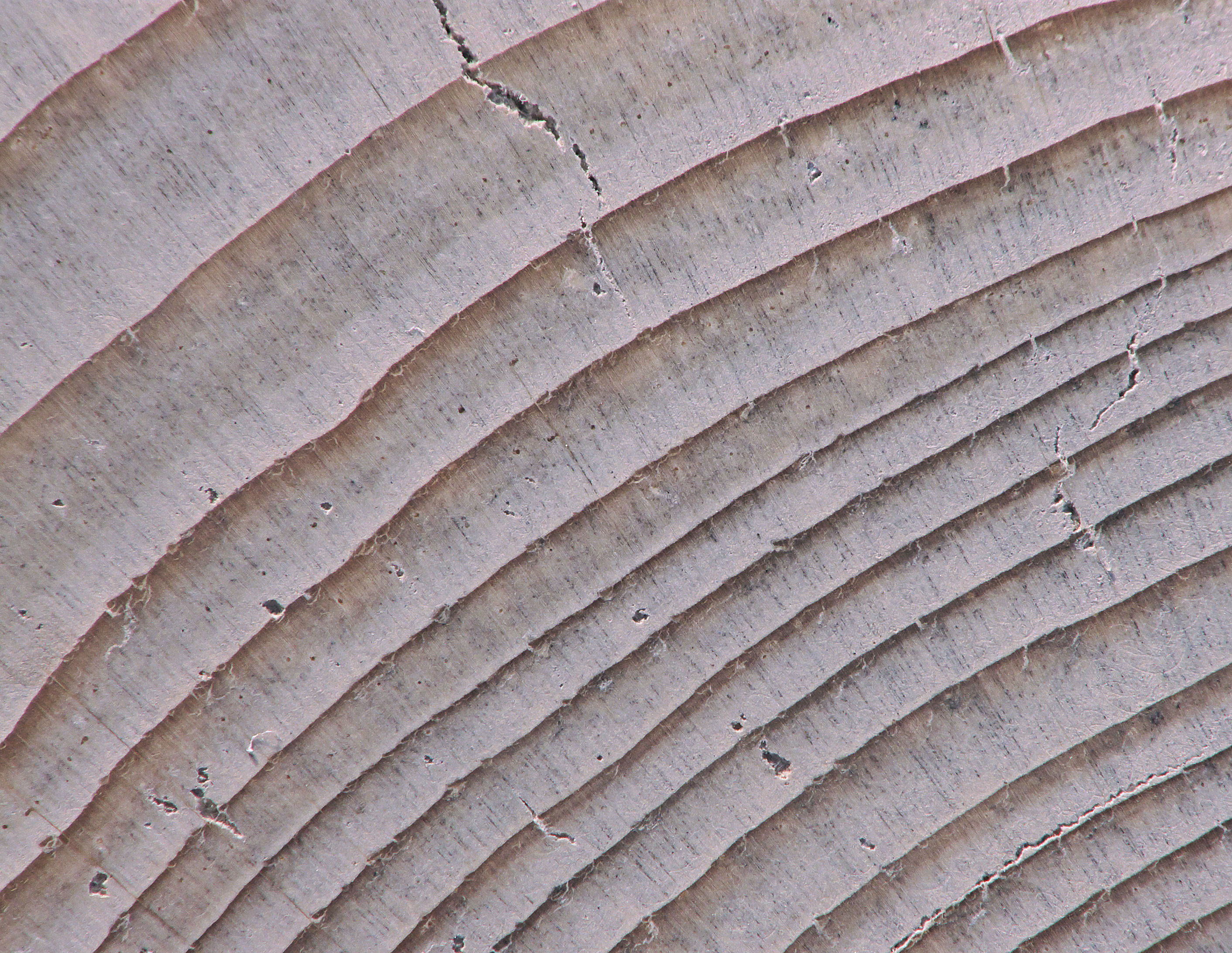 Picea abies